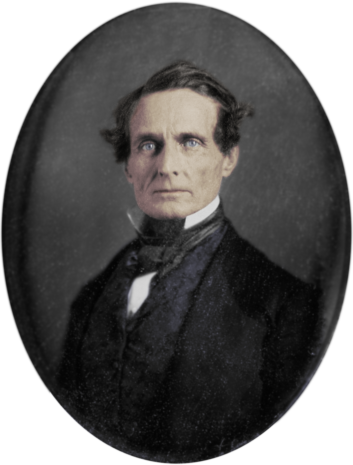 Daguerreotype of Jefferson Davis